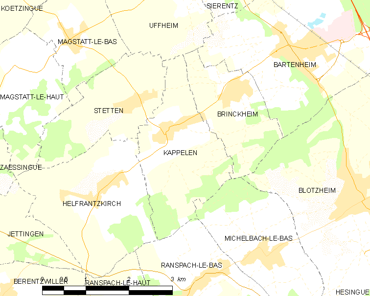 Map of French municipality